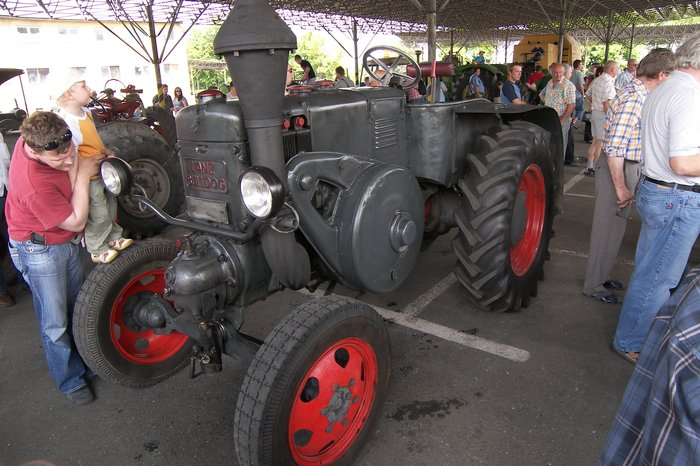 Great-grandfather’s tractor Lanz Bulldog